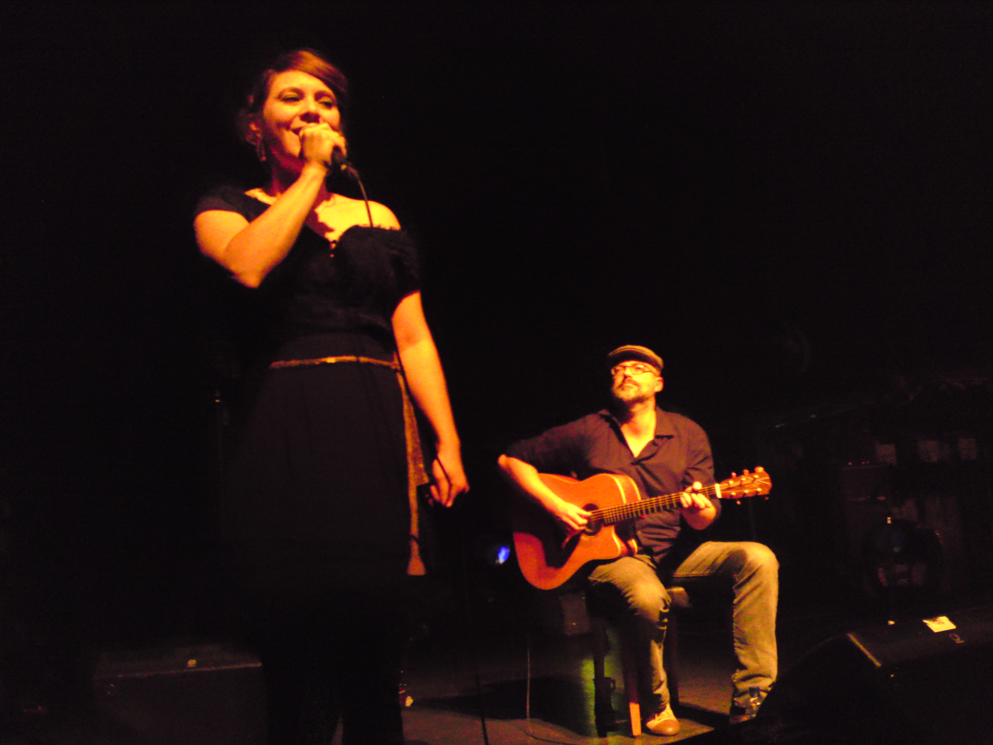 Nouvelle Vague live at Rockefeller, Oslo, Norway. October 10th 2009. Melanie Pain and Olivier Libaux pictured.